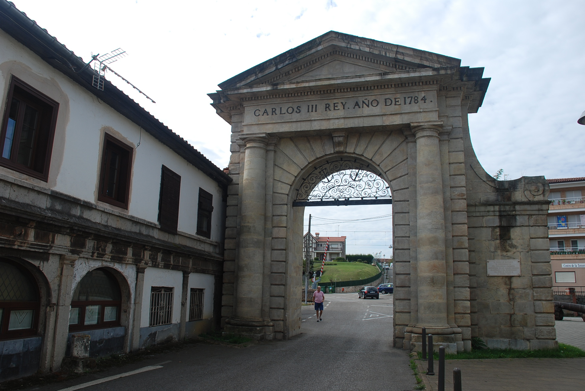 Gate of Charles III of Spain. It was the old entrance to the Royal Factory of Artillery at the municipality of La Cavada (Cantabria).